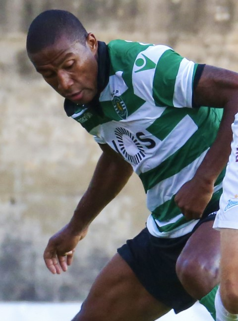 Marvin Zeegelaar